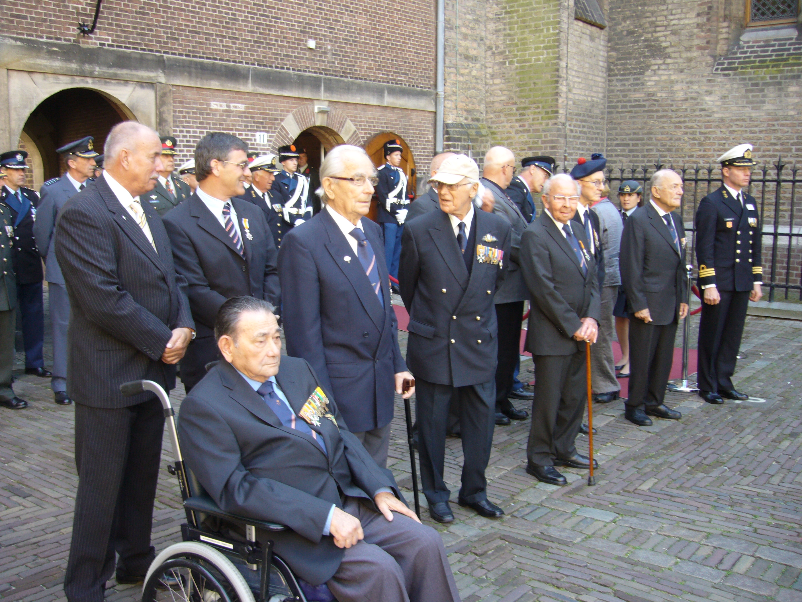 Six Knights of the Military William Order at the Binnenhof (The Hague, The Netherlands), attending the presentation ceremony of Knight Marco Kroon on 29 May 2009. From left to right: Giovanni Narcis Hakkenberg (wheel chair), Cornelis Pieter van den Hoek, Baron Pierre Louis d’Aulnis de Bourouill, Albert Hoeben , Wilford Hiram Kirk, and Frits Jan Willem den Ouden.